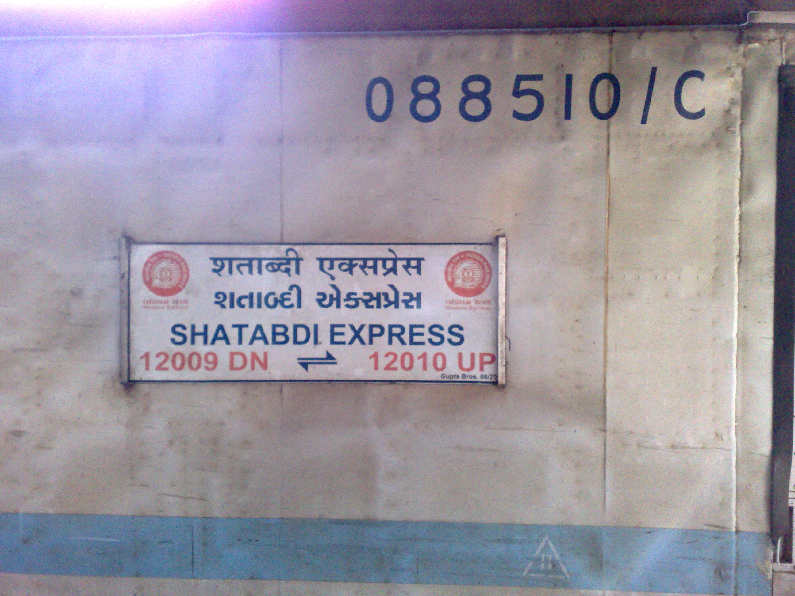 Nameboard of 12010 Shatabdi Express